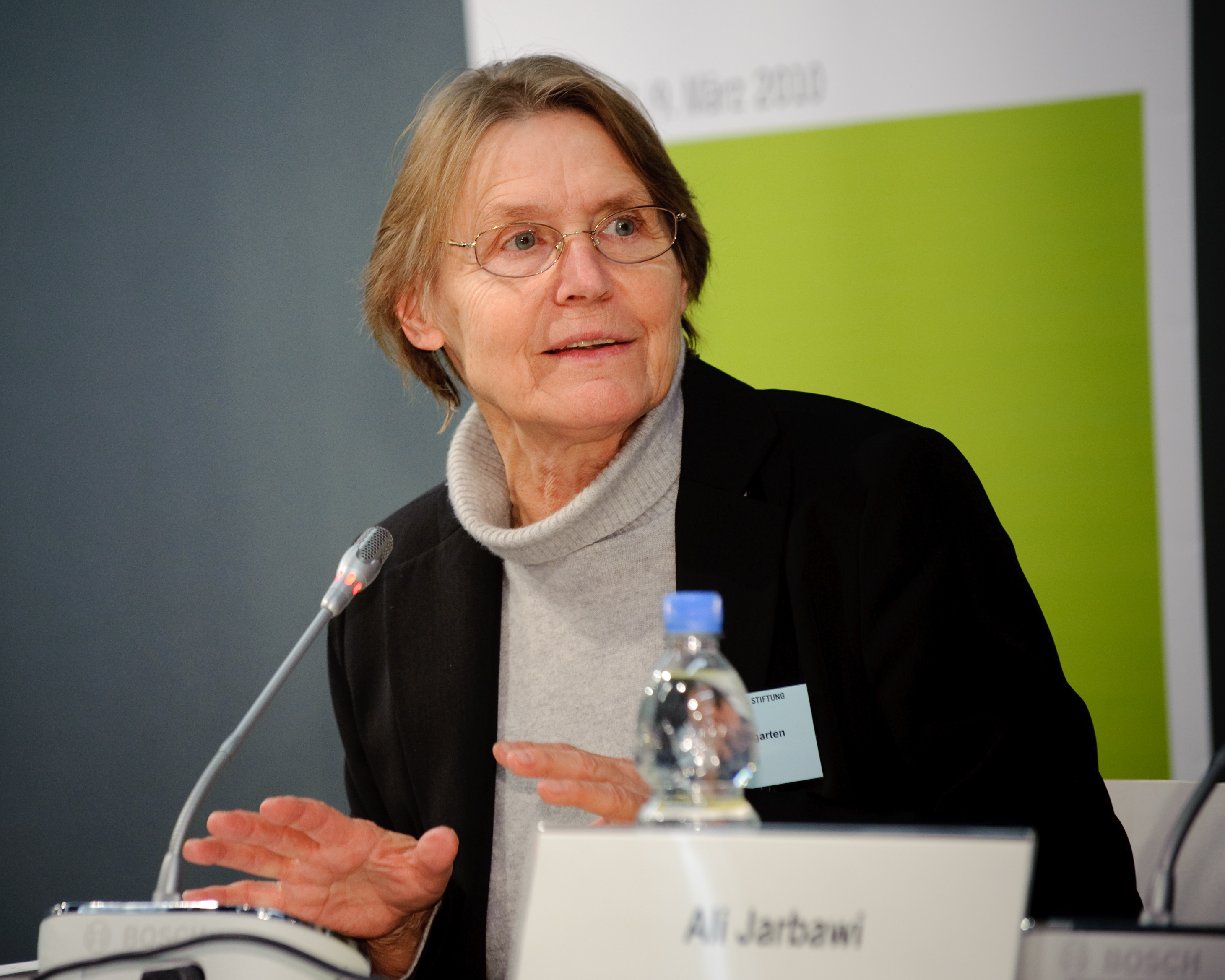 Foto: Stephan Röhl